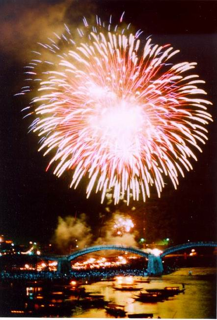 Kintai Bridge festival at night